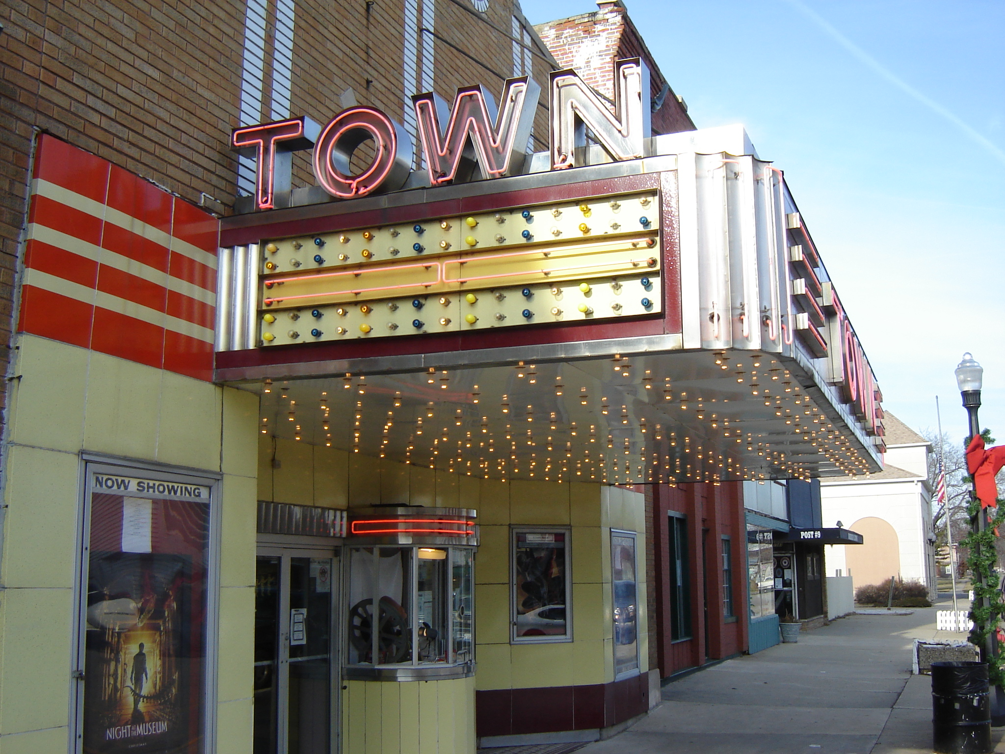 The art deco cinema in North 2nd Street, Chillicothe Il. USA. (Town Theatre, 1029 North 2nd Street, Chillicothe, Illinois)